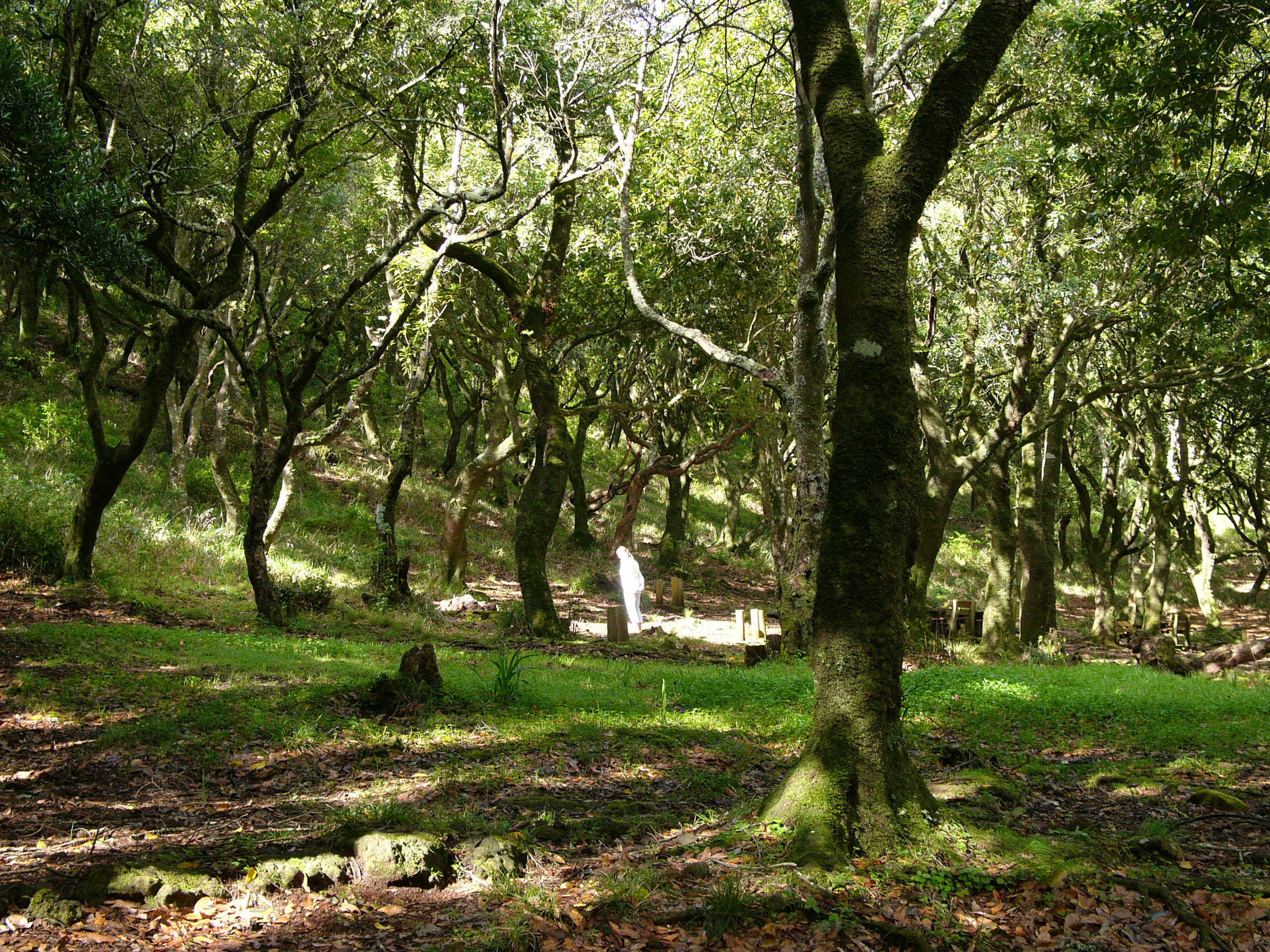 Lauracea wood, original vegetation on Madeira (UNESCO World Heritage Site)